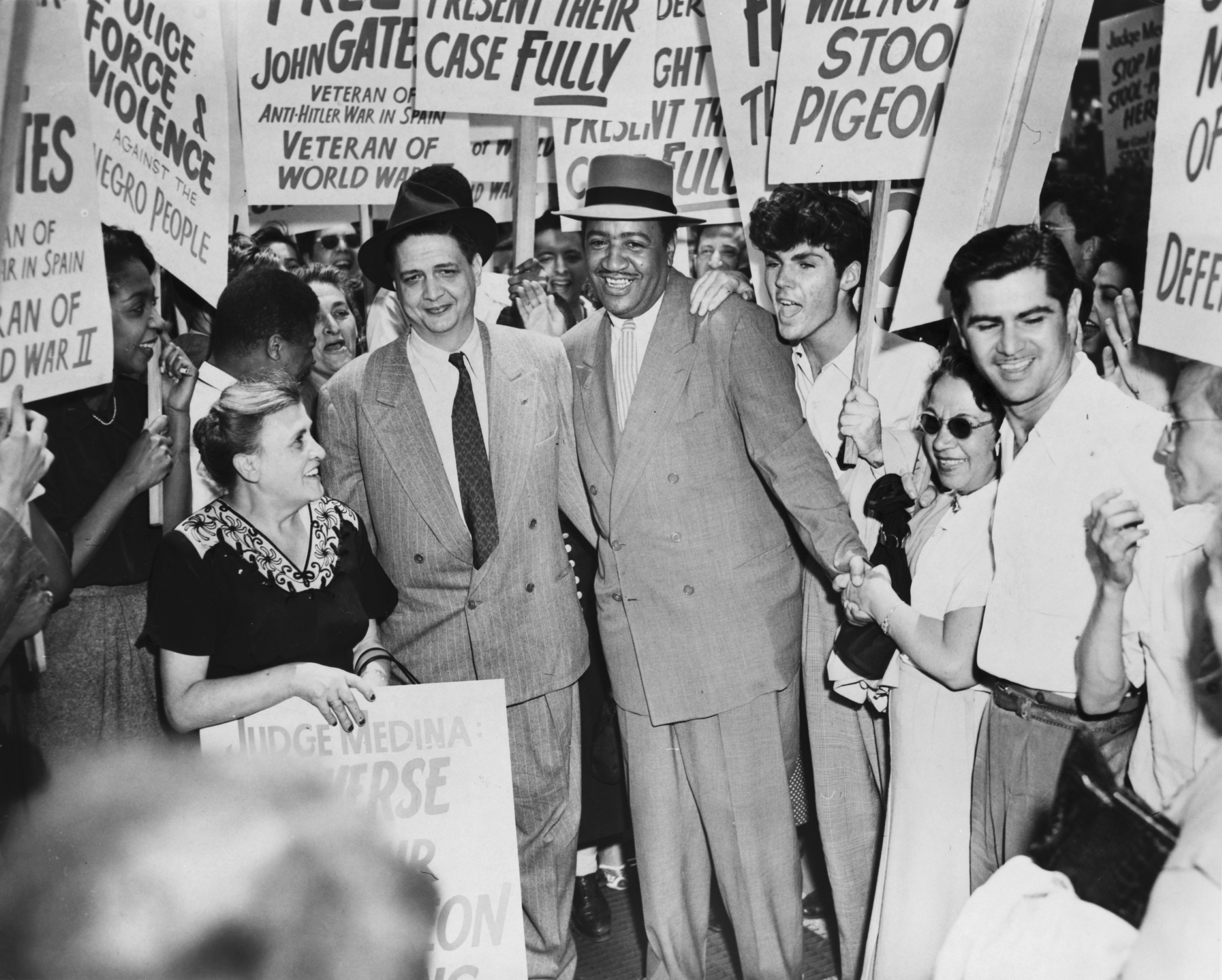 Robert Thompson and Benjamin Davis surrounded by pickets as they leave the Federal Courthouse in New York City / World Telegram & Sun photo by C.M. Stieglitz.